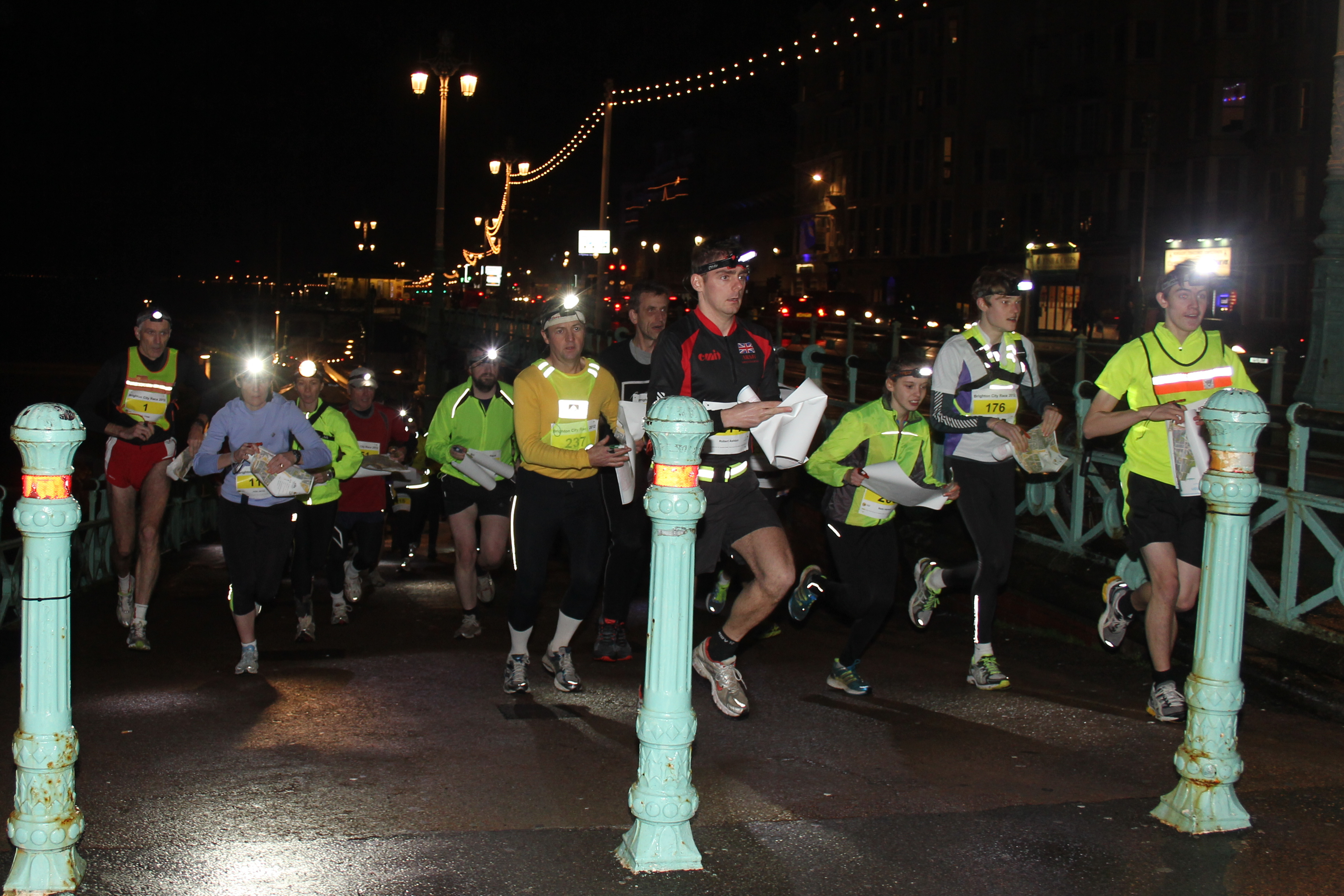 Urban Orienteering in Brighton, UK